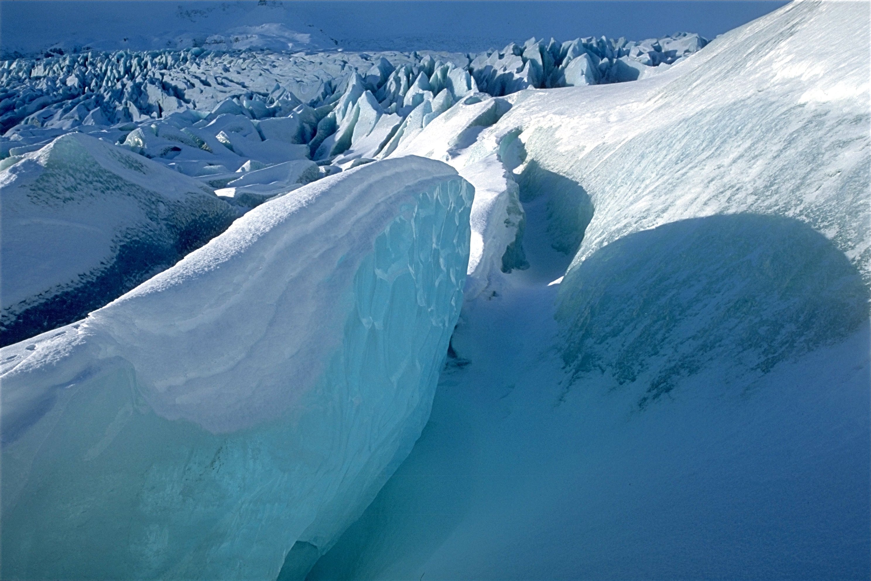 Detail of Breiðamerkurjökull, part of Vatnajökull near Jökulsárlón, Iceland Photo was taken using the following technique: Film: Fuji Velvia Lens: 2.8/28 Filter: Polarisation Body: Minolta Dynax 7 Support: Manfrotto 190B Image with Information in English Bild mit Informationen auf Deutsch